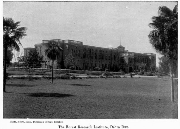 The Doon School's main building in 1917 when it was still part of the Forest Research Institute, Dehradun.